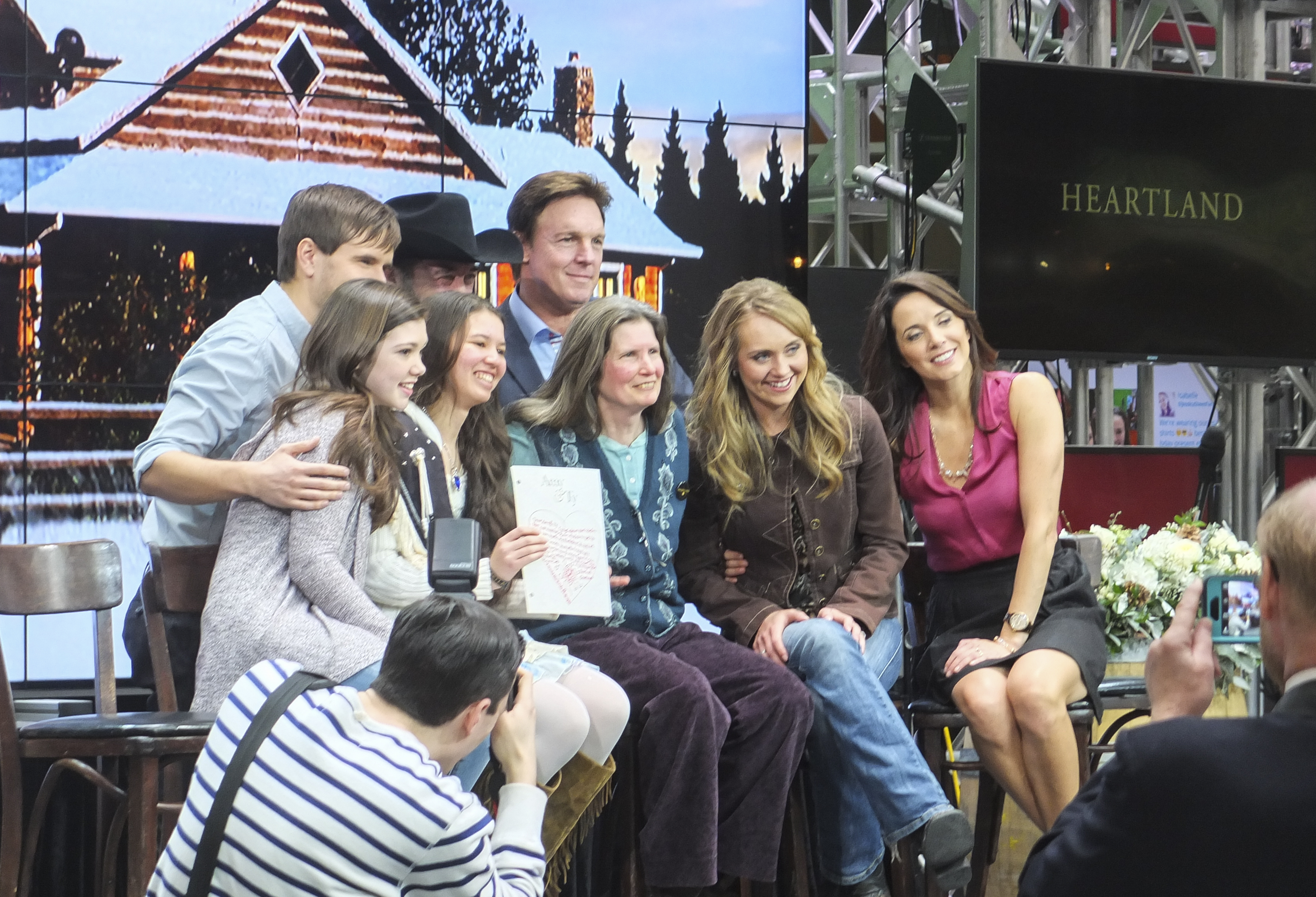 Heartland (2007) Canadian Tv series cast in 2015 at CBC atrium